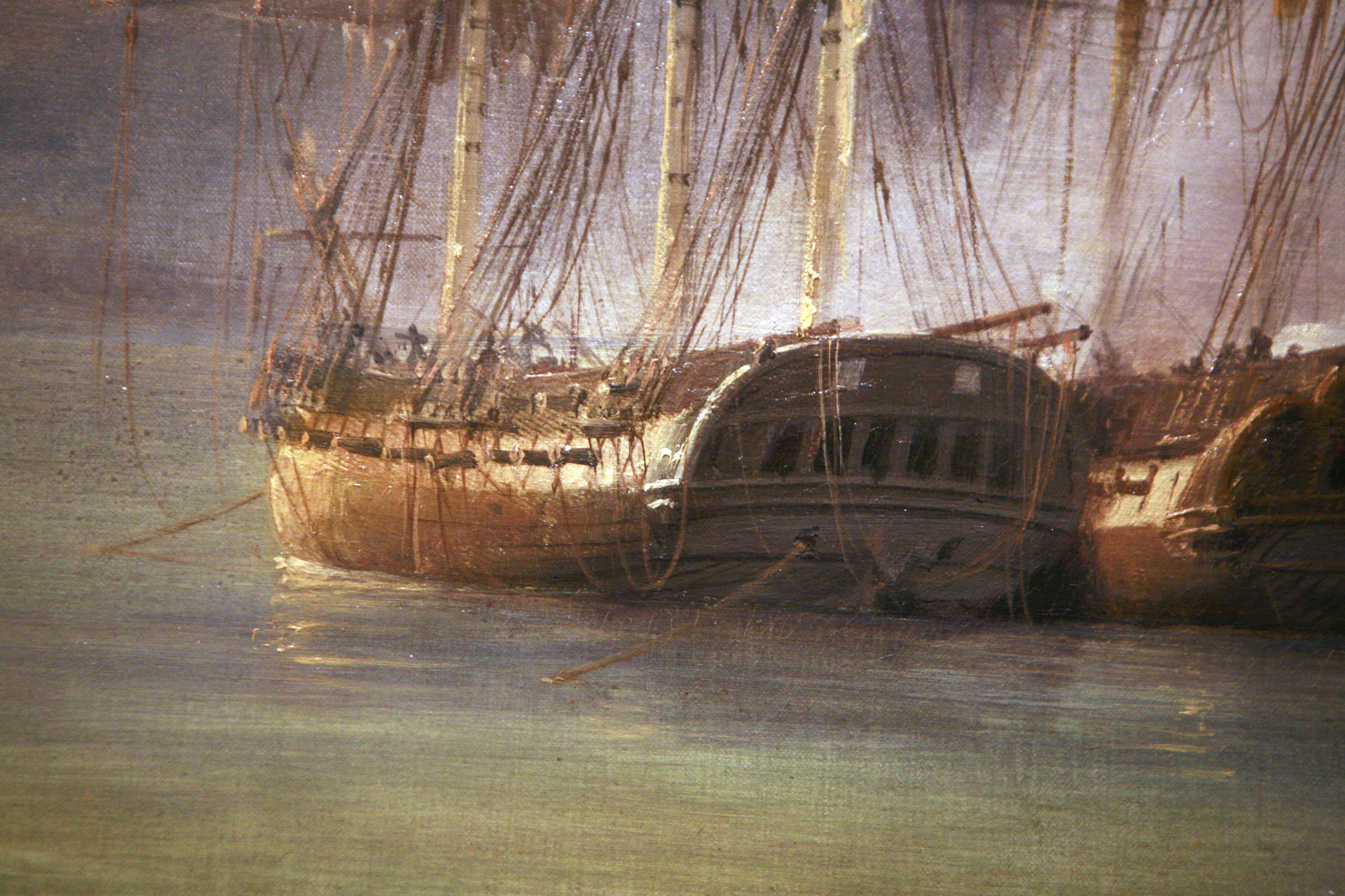 Detail of Battle of Grand Port: French frigate BelloneOil on canvasCollection Musée national de la Marine Native nameMusée national de la MarineLocationParisCoordinates48° 51′ 43.11″ N, 2° 17′ 16.76″ E Established1827Web page control : Q1286709 VIAF: 19144648200974718522 ISNI: 0000 0001 2259 2914 LCCN: n50055356 Museofile: M5026 WorldCat institution QS:P195,Q1286709Source/Photographer Rama